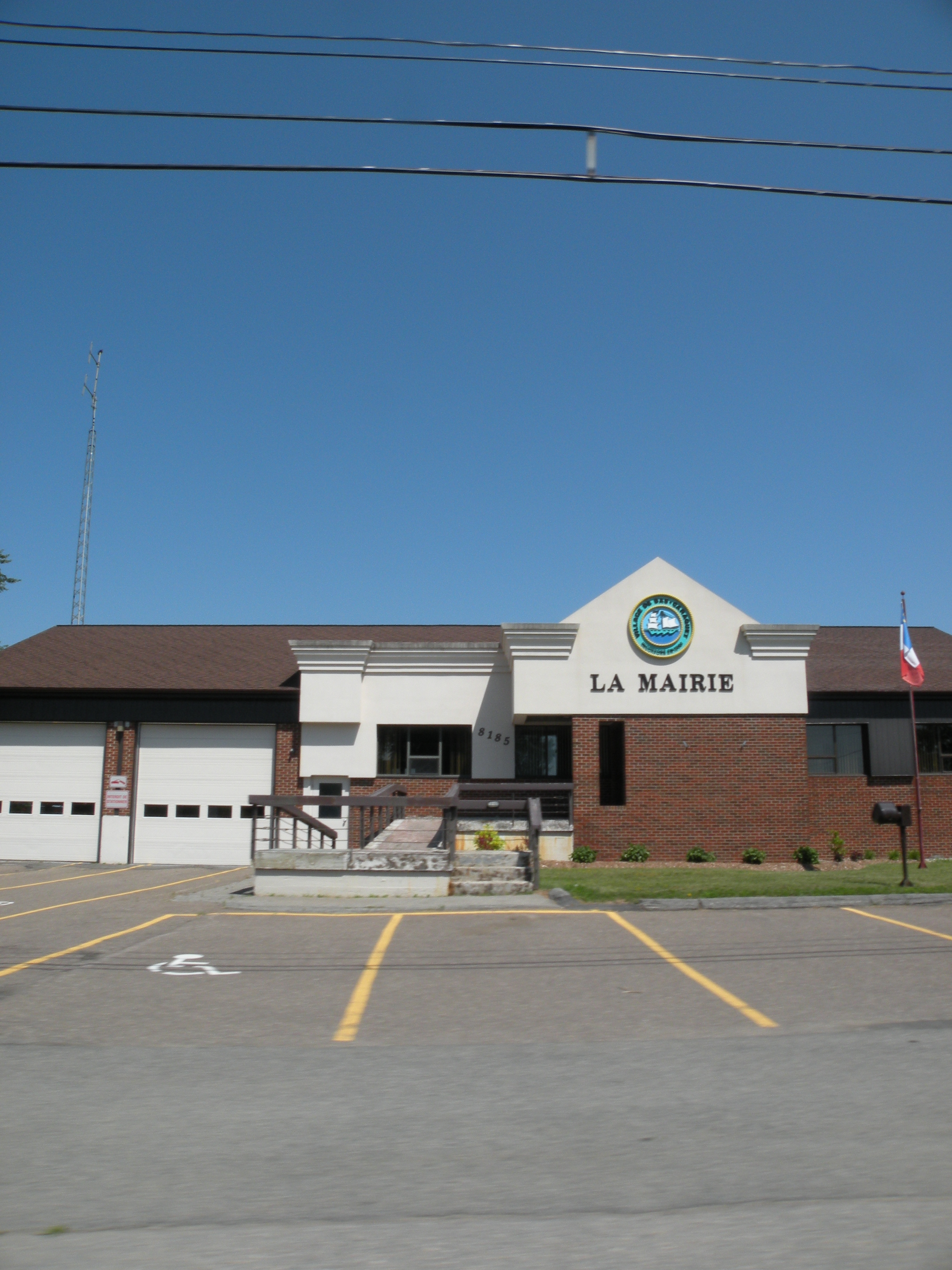 Town Hall of Bas-Caraquet, New Brunswick, Canada.